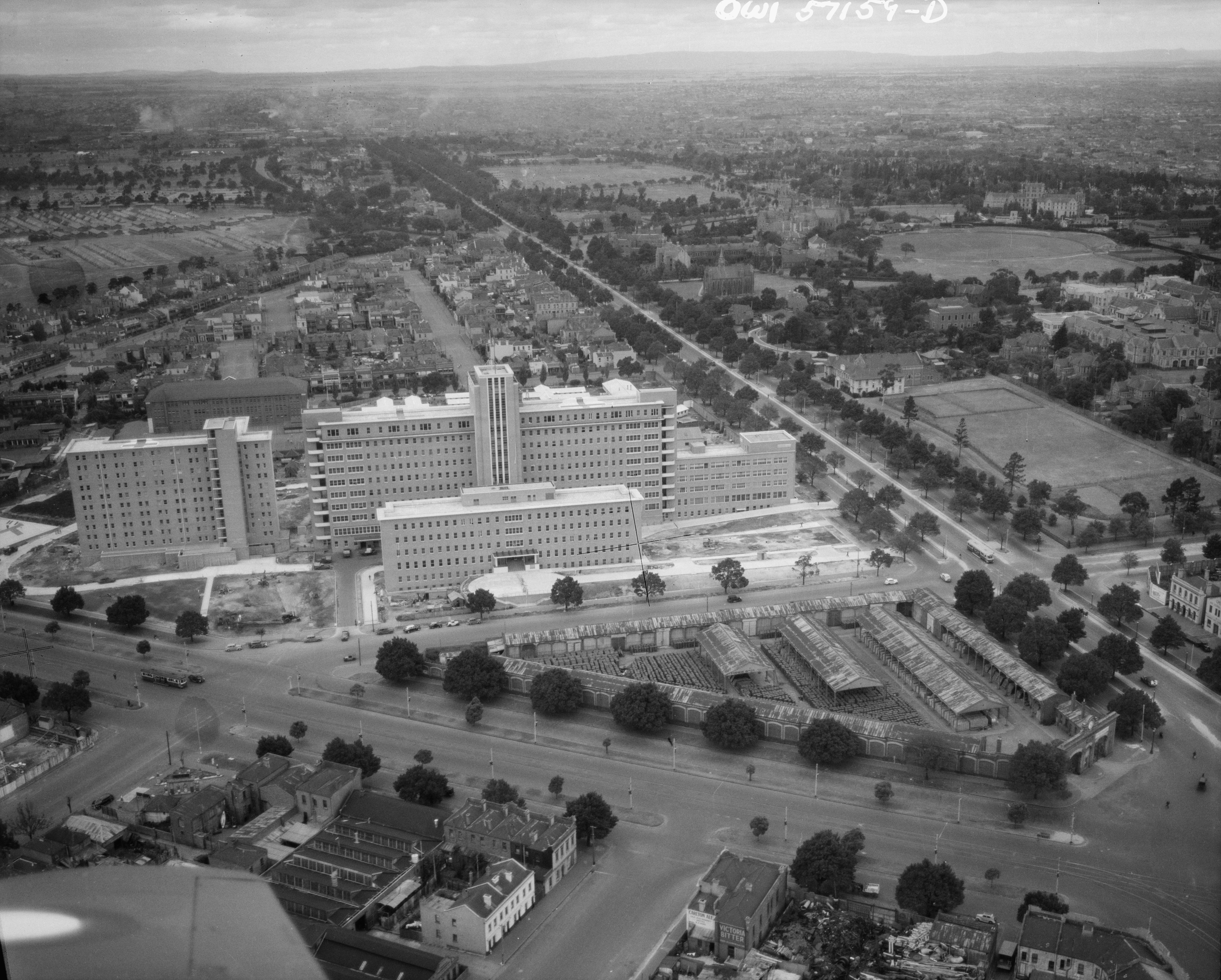 Melbourne, Australia. United States Army hospital. Towering high above the city is Australia's newest and finest medical structure, built as a civic enterprise as the Royal Melbourne Hospital. Today, renamed the United States Army Fourth General Hospital, it is a healing place for American soldiers and sailors. A three million dollar lump sum of reciprocal lend-lease was handed over to the United States before it ever had a civilian occupant